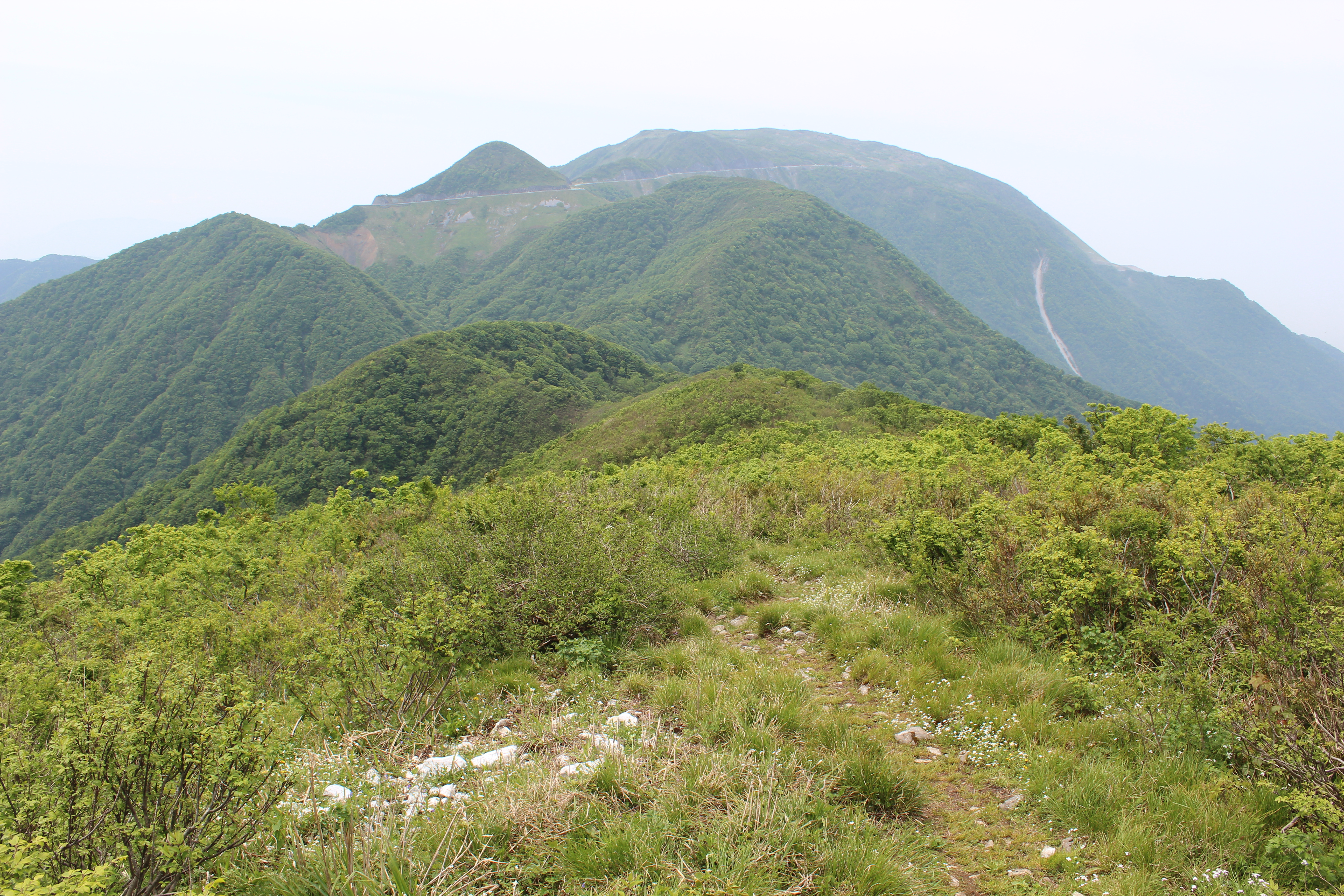 Mount Ibuki seen from Mount Goza on north ridge of Mount Ibuki, in Gifu prefecture and Shiga prefecture, Japan.